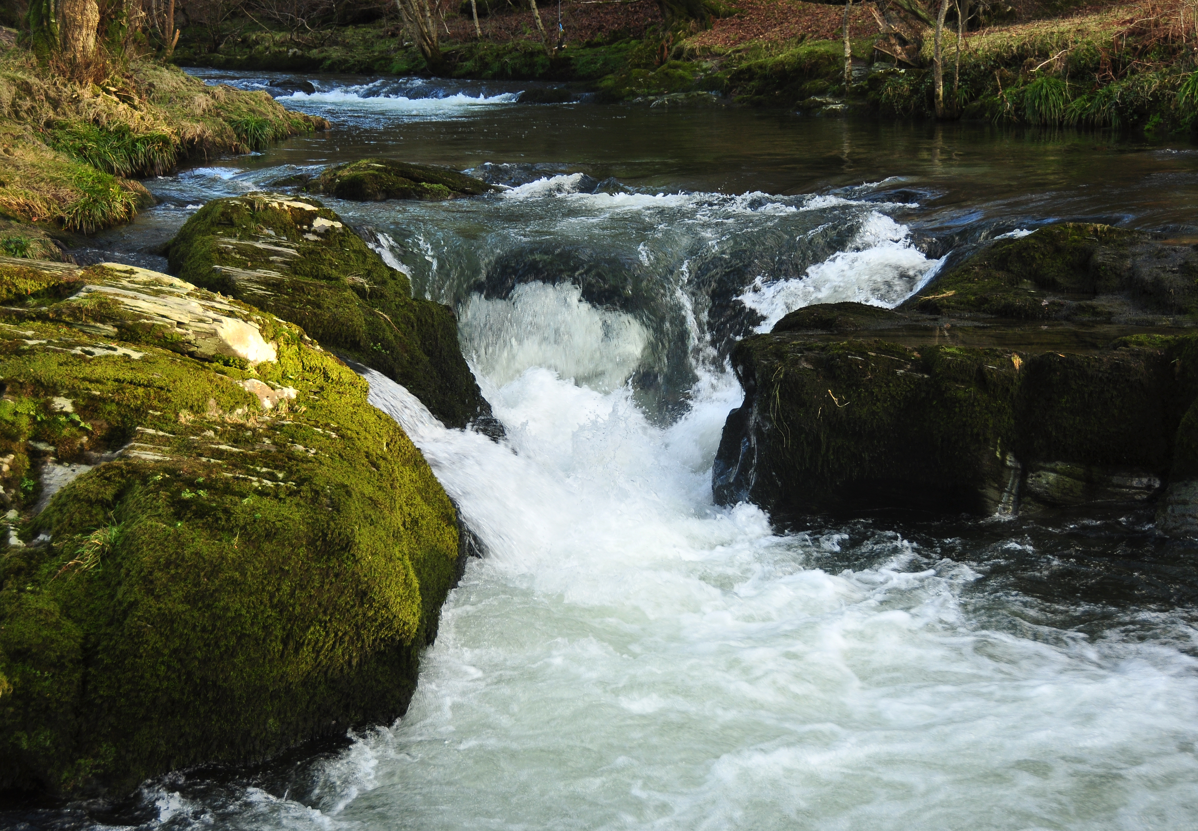 The River Walkham, below West Down in Devon. This is shortly above the river's confluence with the River Tavy.